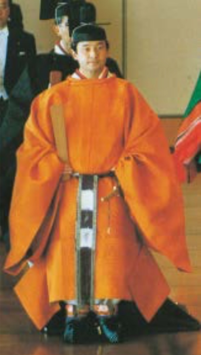 Prince Naruhito Wearing Sokutai. Later, he became a 126th Emperor of Japan.